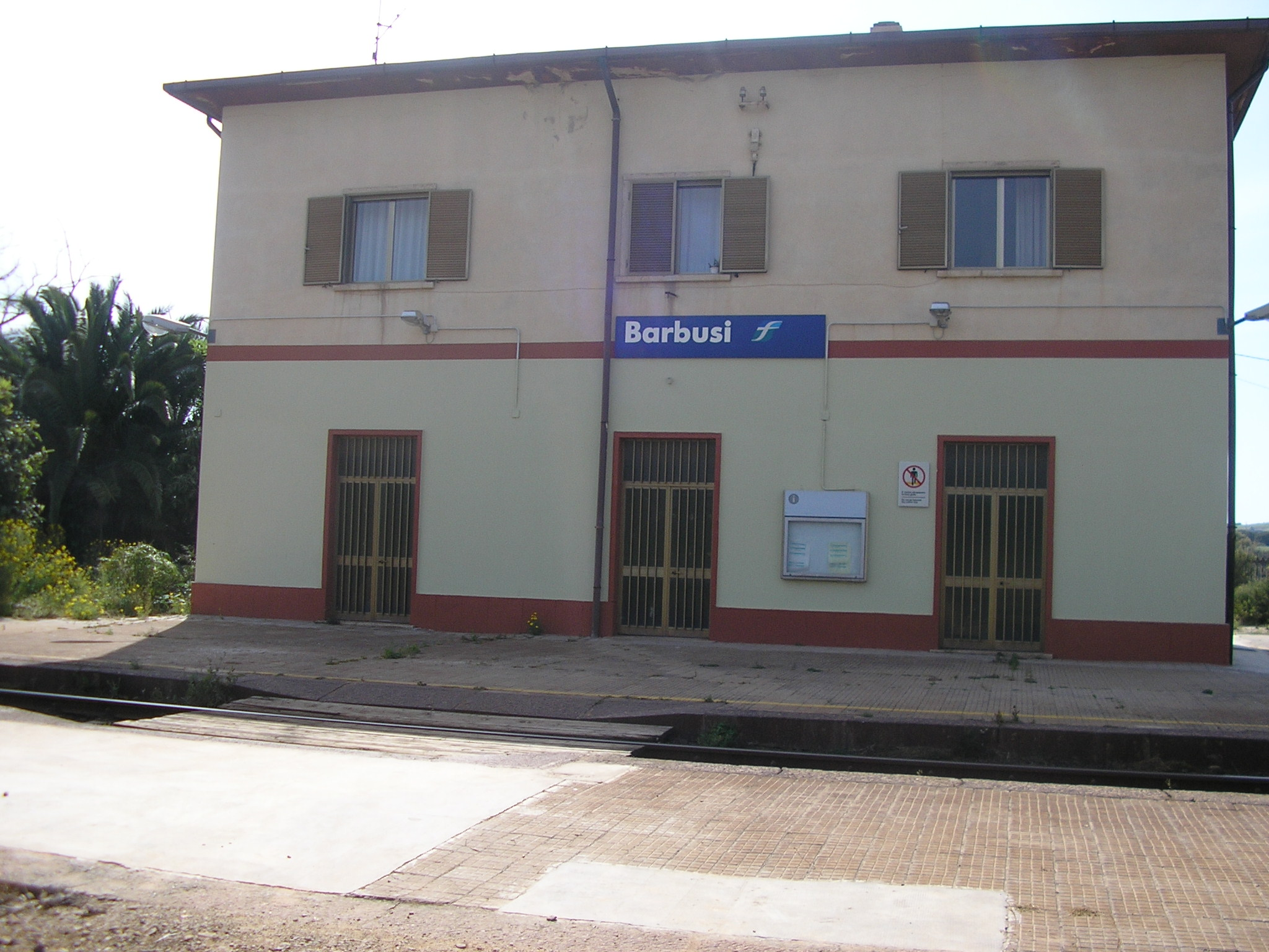 Barbusi halt, along the Villamassargia-Carbonia Stato railway in Sardinia, Italy